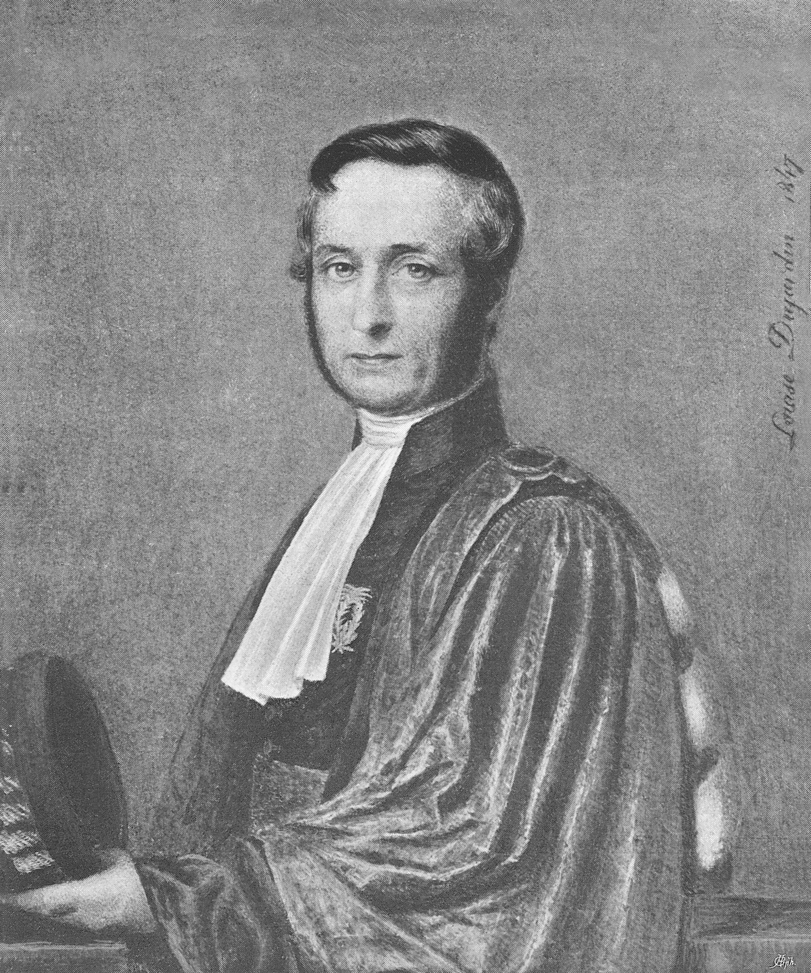 Portrait from a miniature made by his daughter Louise Dujardin in 1847.